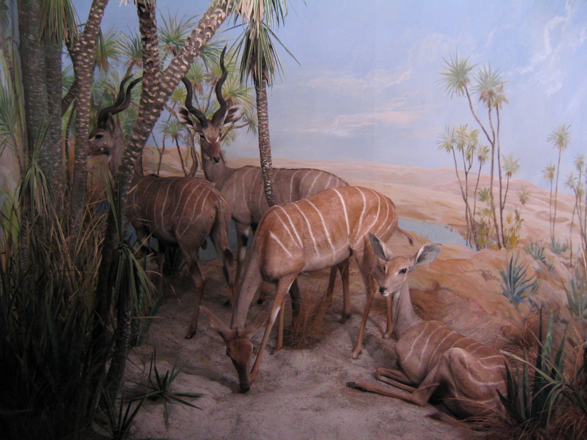 Lesser Kudu, Tragelaphus imberbis. Biorama at the Natural History Museum, Bern, Switzerland. Photo by User:Gdr.